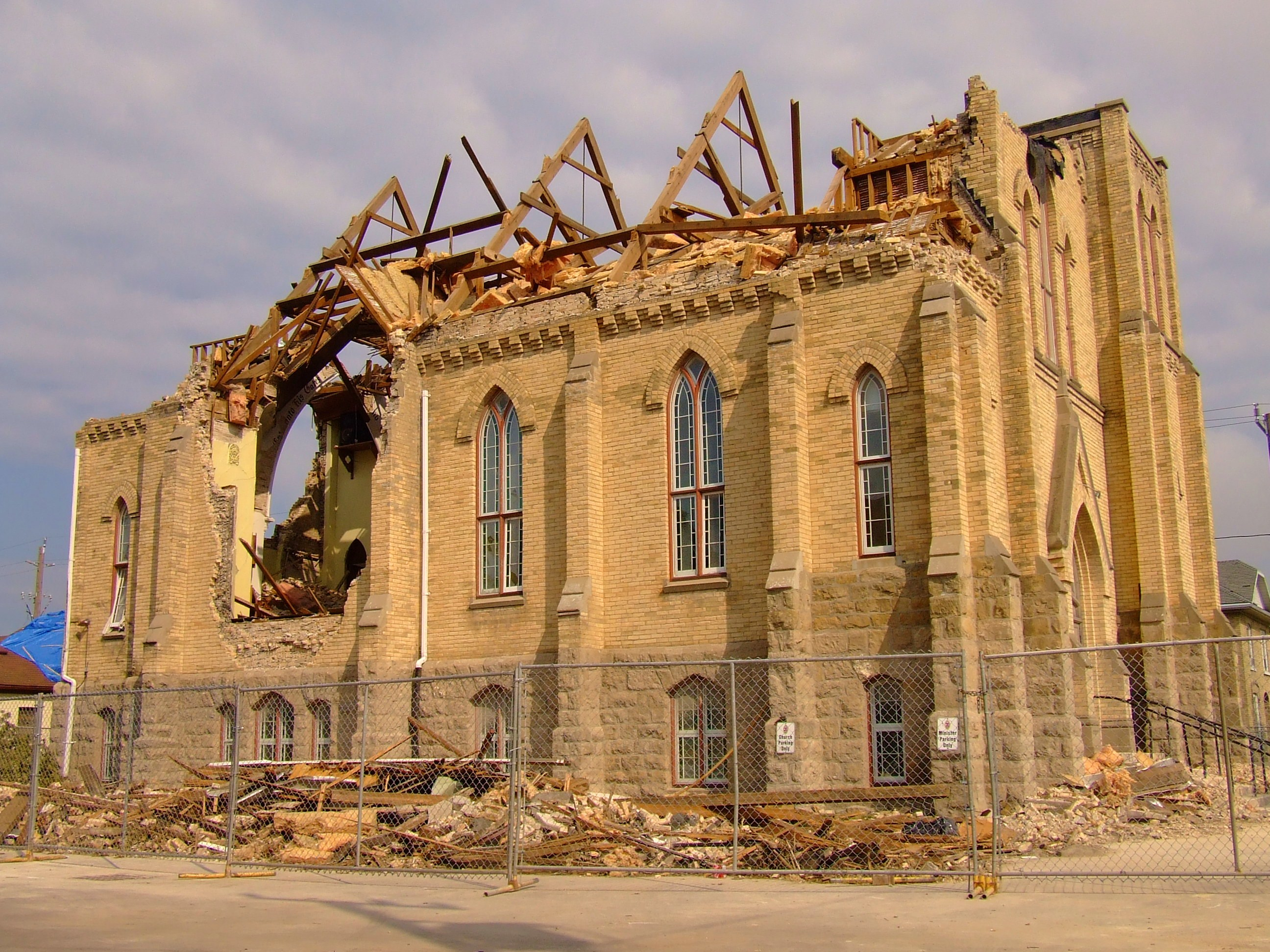 Severe damage to the United Church on Victoria Street (Kings Highway 21) in Goderich, Ontario on August 27, 2011 following the tornado.